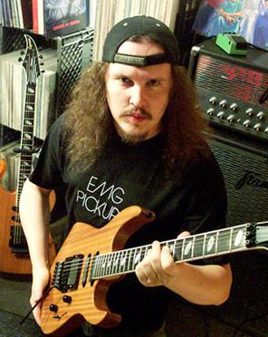 American Death Metal Guitarist James Murphy in dressing room at the Nokia Theater for the Roadrunner United show.